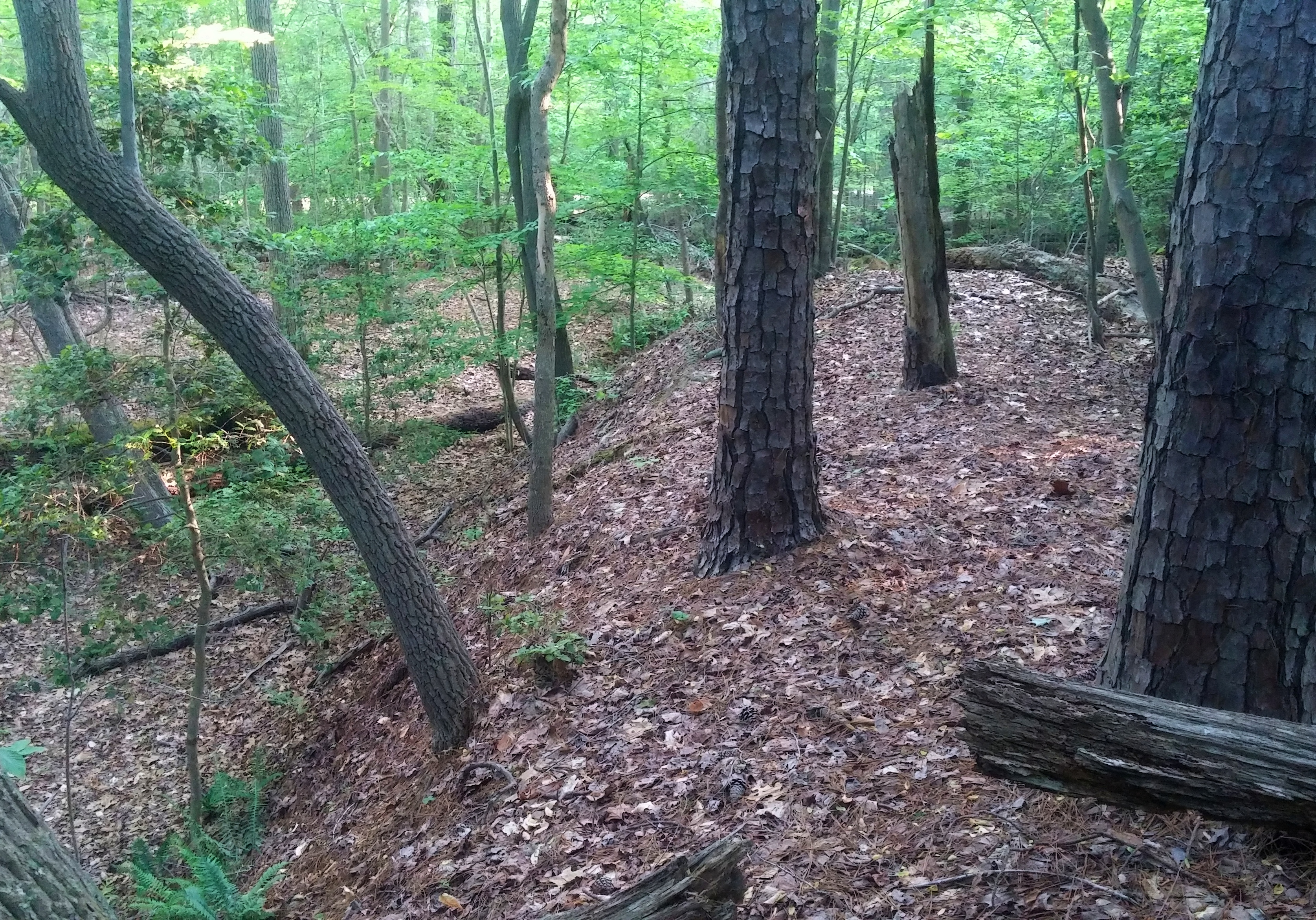 Redoute №12 near Williamsburg, which was taken by Hanckok's brigade May 5 1862